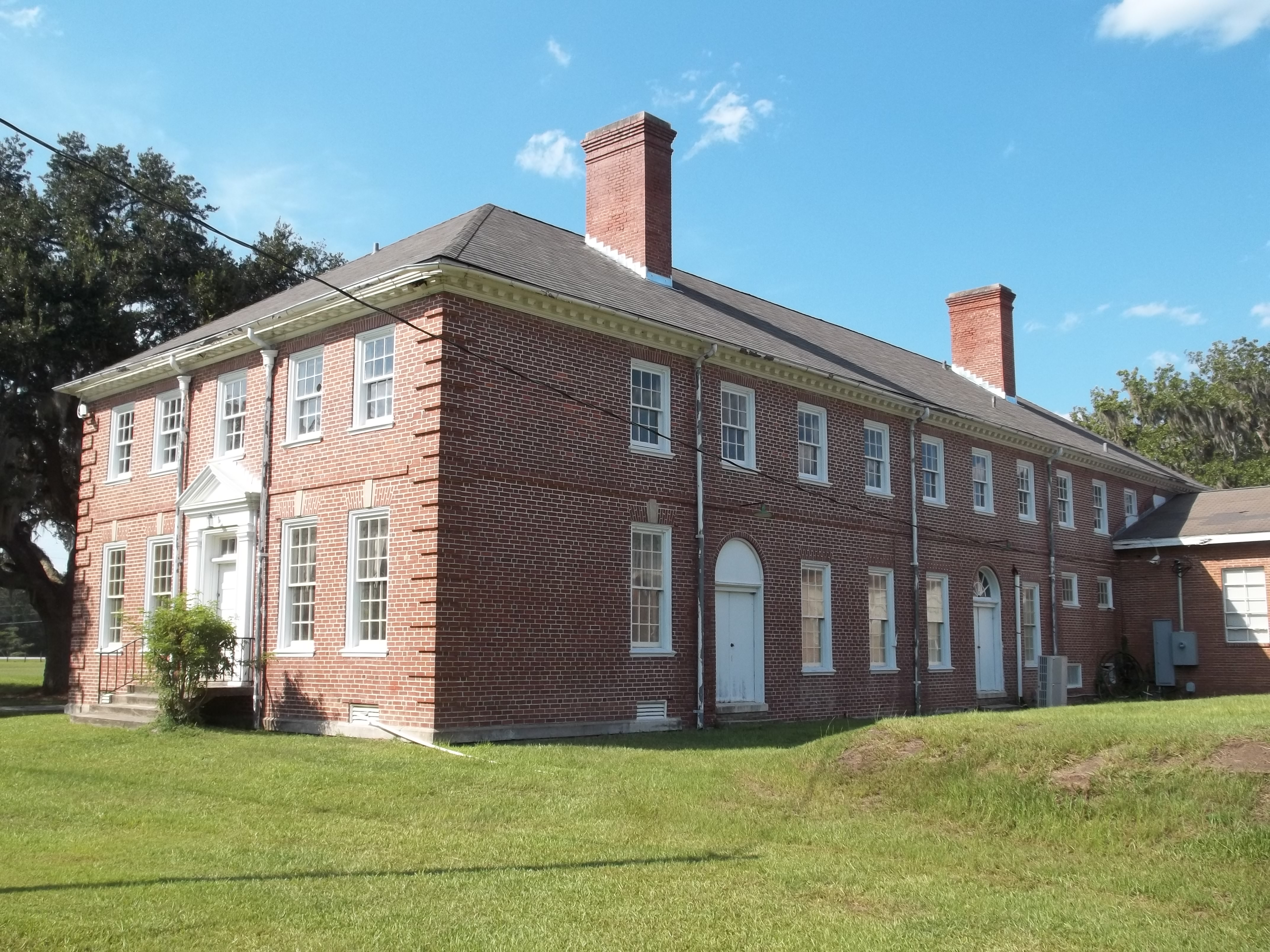 Midway, Georgia: Dorchester Academy